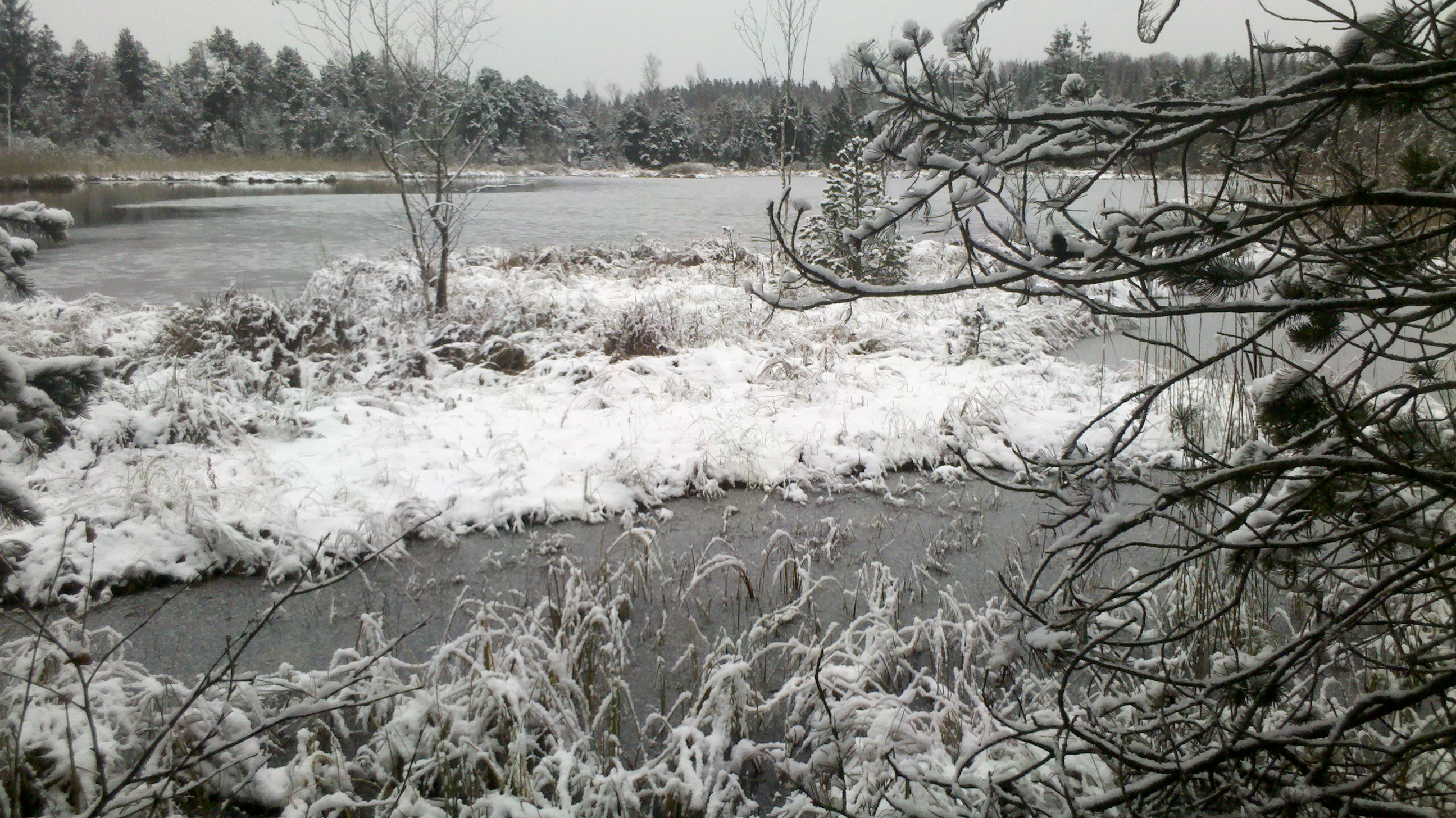 Lachenweiher, Bavaria, Germany, Nature Protected Area (Naturschutzgebiet) Bernrieder Filz